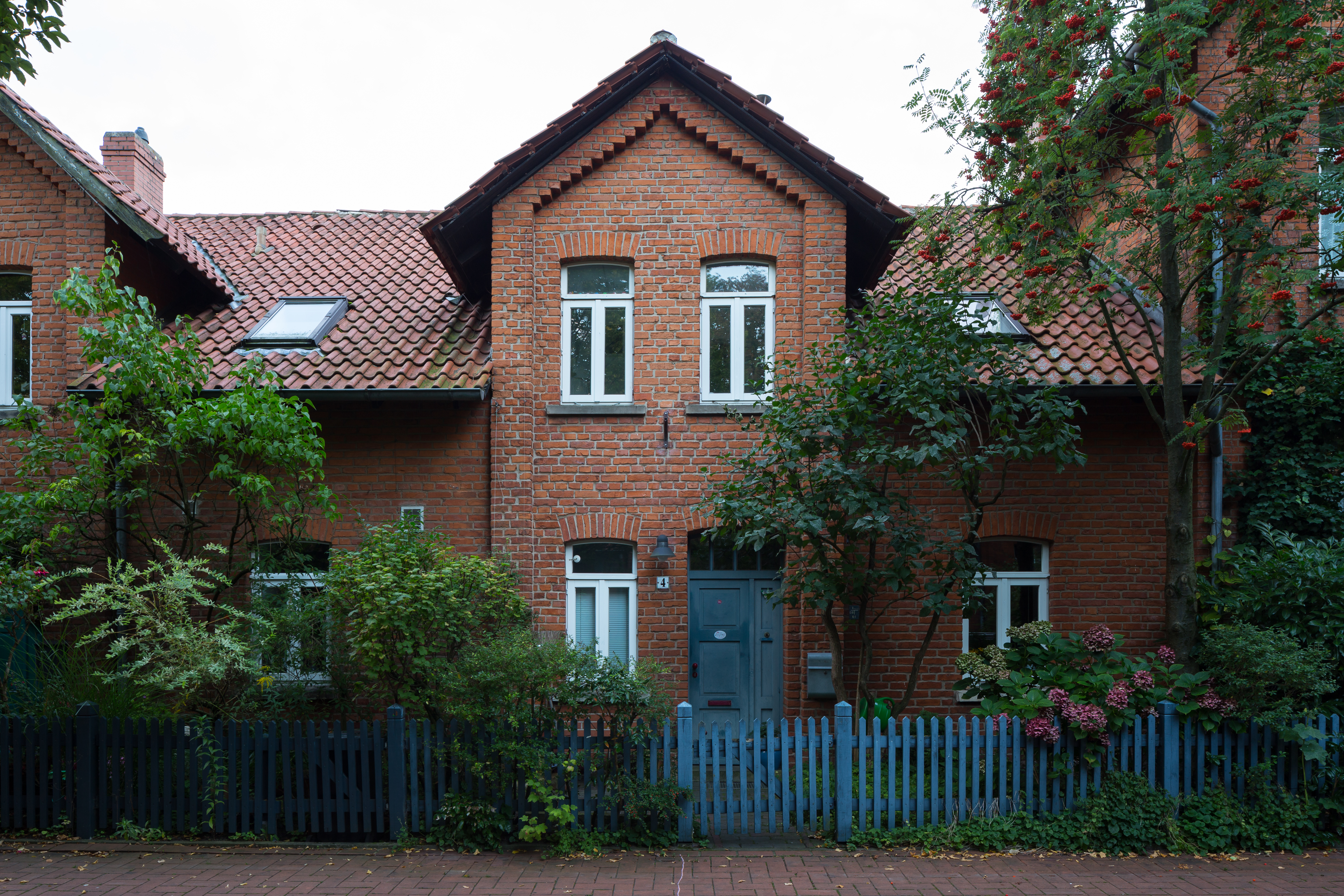 Former workers' settlement Doehrener Jammer (= Doehren misery) located in Doehren quarter of Hannover, Germany. The pictured house is located at Werrastrasse.